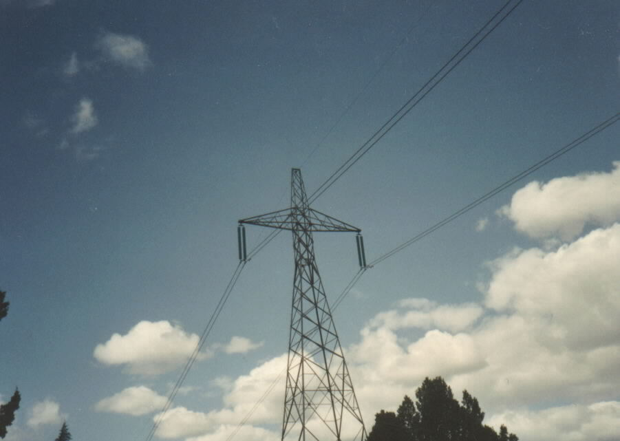 Two strand HVDC power line between Redmond and Prineville, OR. Line goes from Celilo converter station by The Dalles, OR to Los Angeles area in California.